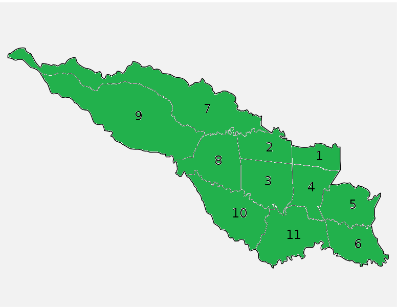 San Jose mayoral results 2002-2006-2010